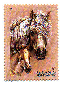 Stamp of Kyrgyzstan. Russian Trotter (a horse breed). 1995.